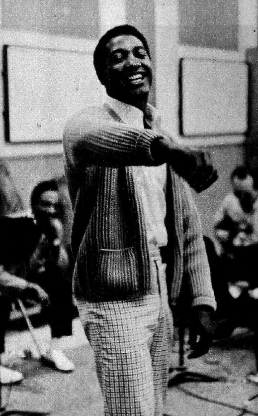 Photo of singer Sam Cooke in the recording studio in 1961.